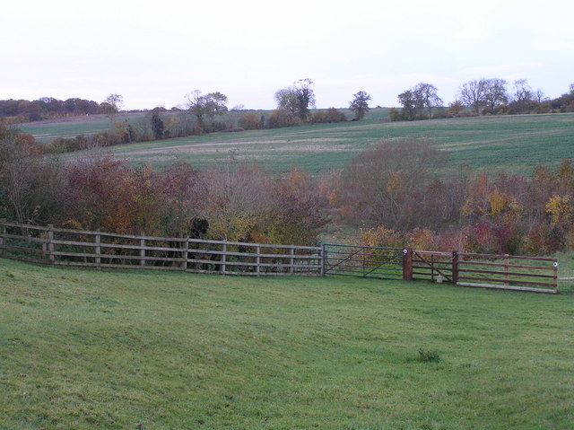 Queen's Oak The blacked stump - all that remains of the famous Queen's Oak. Where Edward IV is reputed to have fallen in love with Elizabeth Woodville in 1461 - whilst out hunting in Whittlewood Forest.